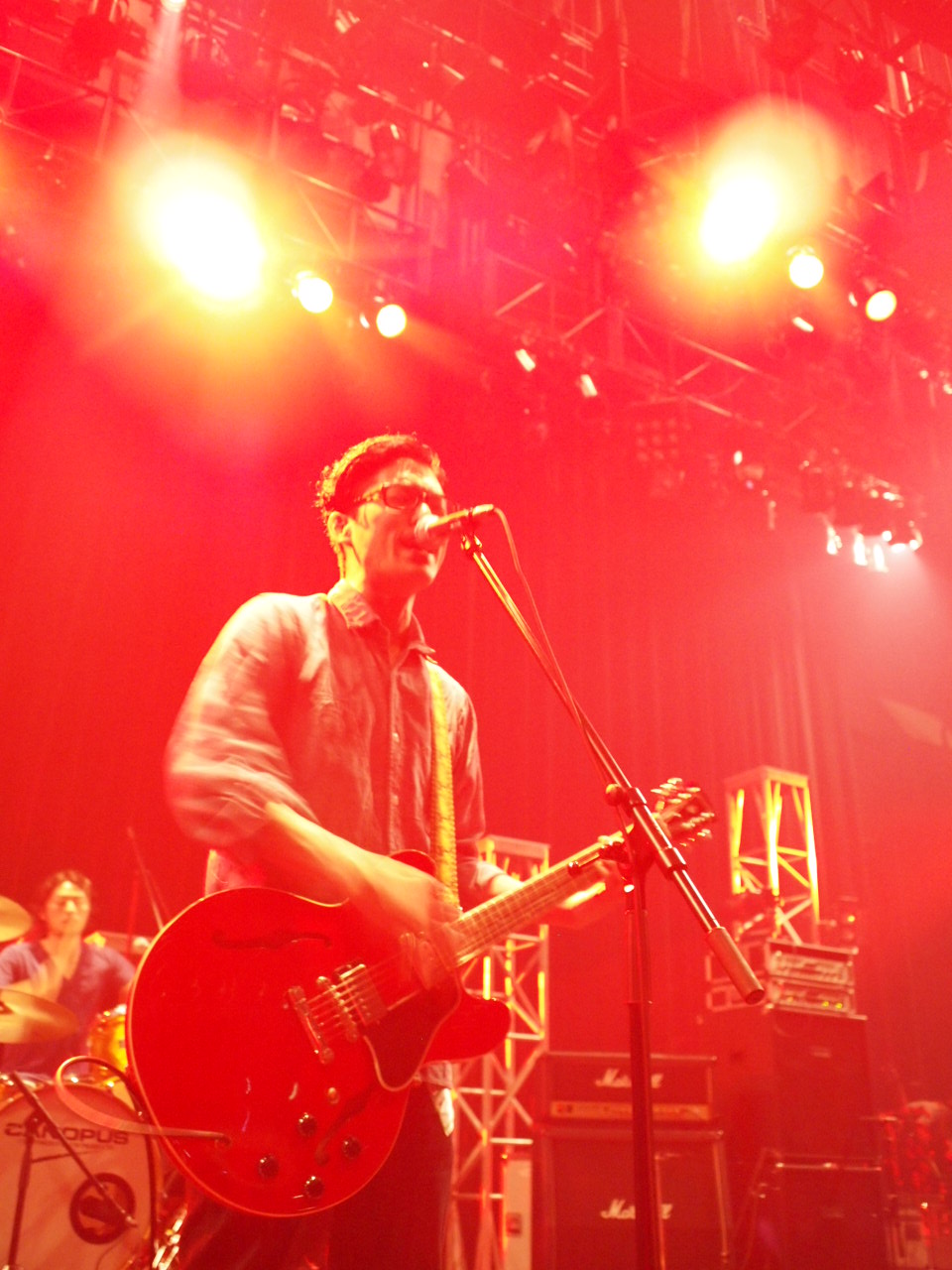 THE RiCECOOKERS' lead vocalist Tomo Hiroishi performing at an event to promote the Japanese TV drama series SPEC.